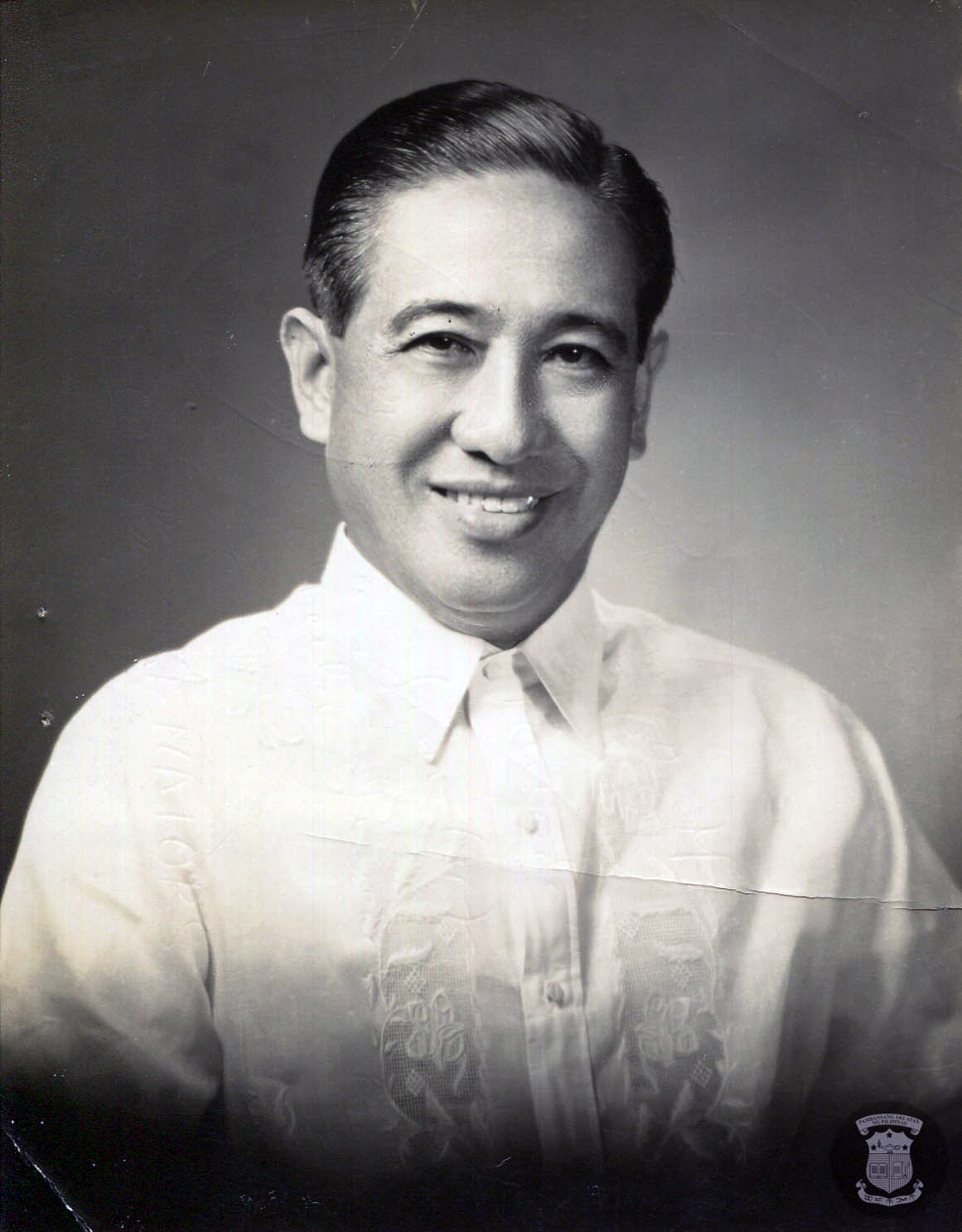 Photo of former Philippine Senator Lorenzo Tañada